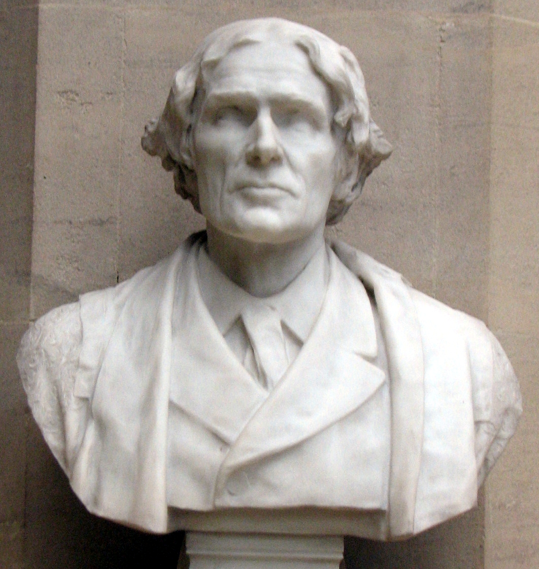 Sir John Scott Burdon-Sanderson, British physiologist. Statue on permanent display in the Oxford University Museum of Natural History.